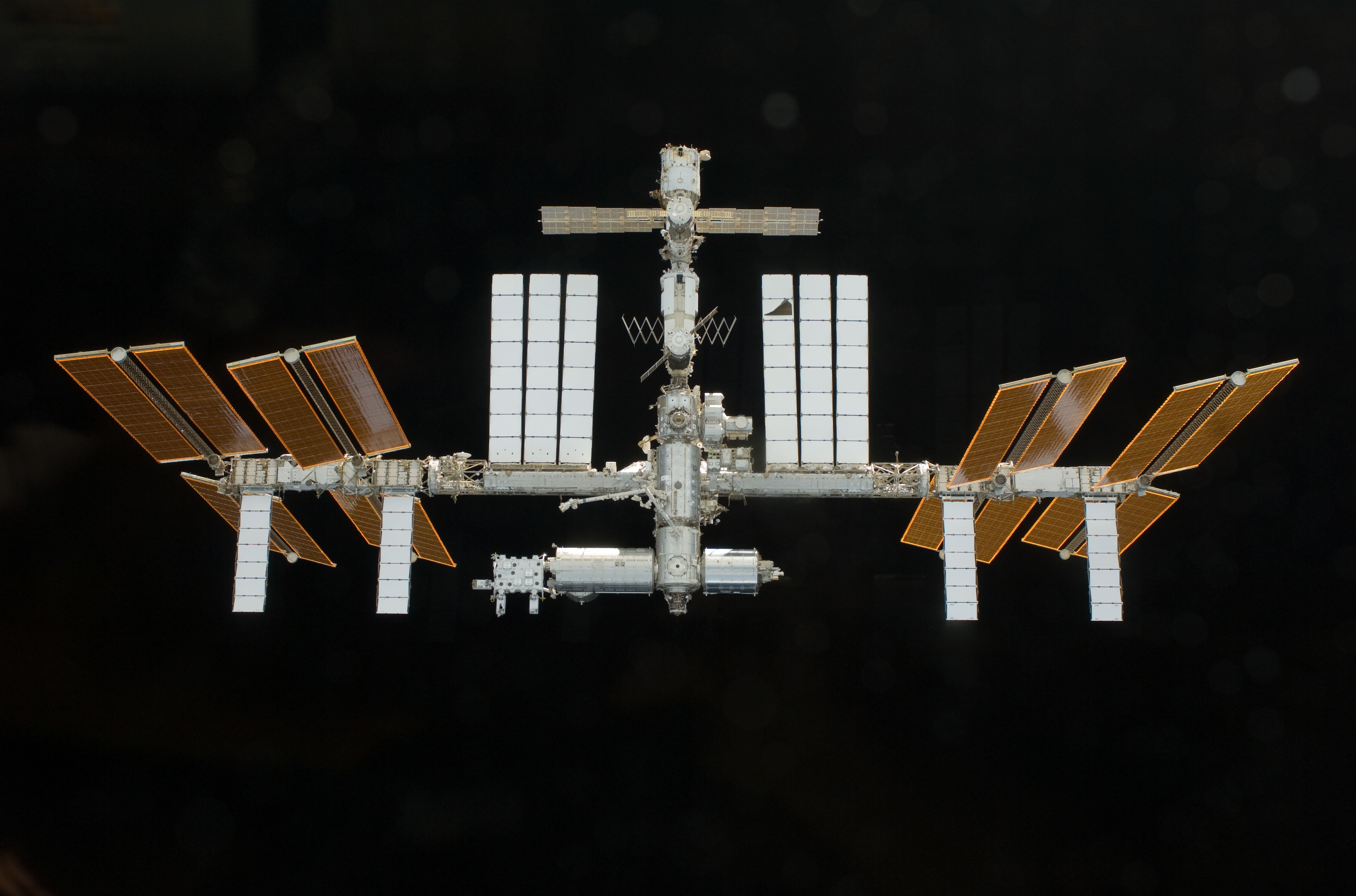 Backdropped by the blackness of space, the International Space Station is seen from Space Shuttle Endeavour as the two spacecraft begin their relative separation. Earlier the STS-127 and Expedition 20 crews concluded 11 days of cooperative work onboard the shuttle and station. Undocking of the two spacecraft occurred at 12:26 p.m. (CDT) on July 28, 2009.